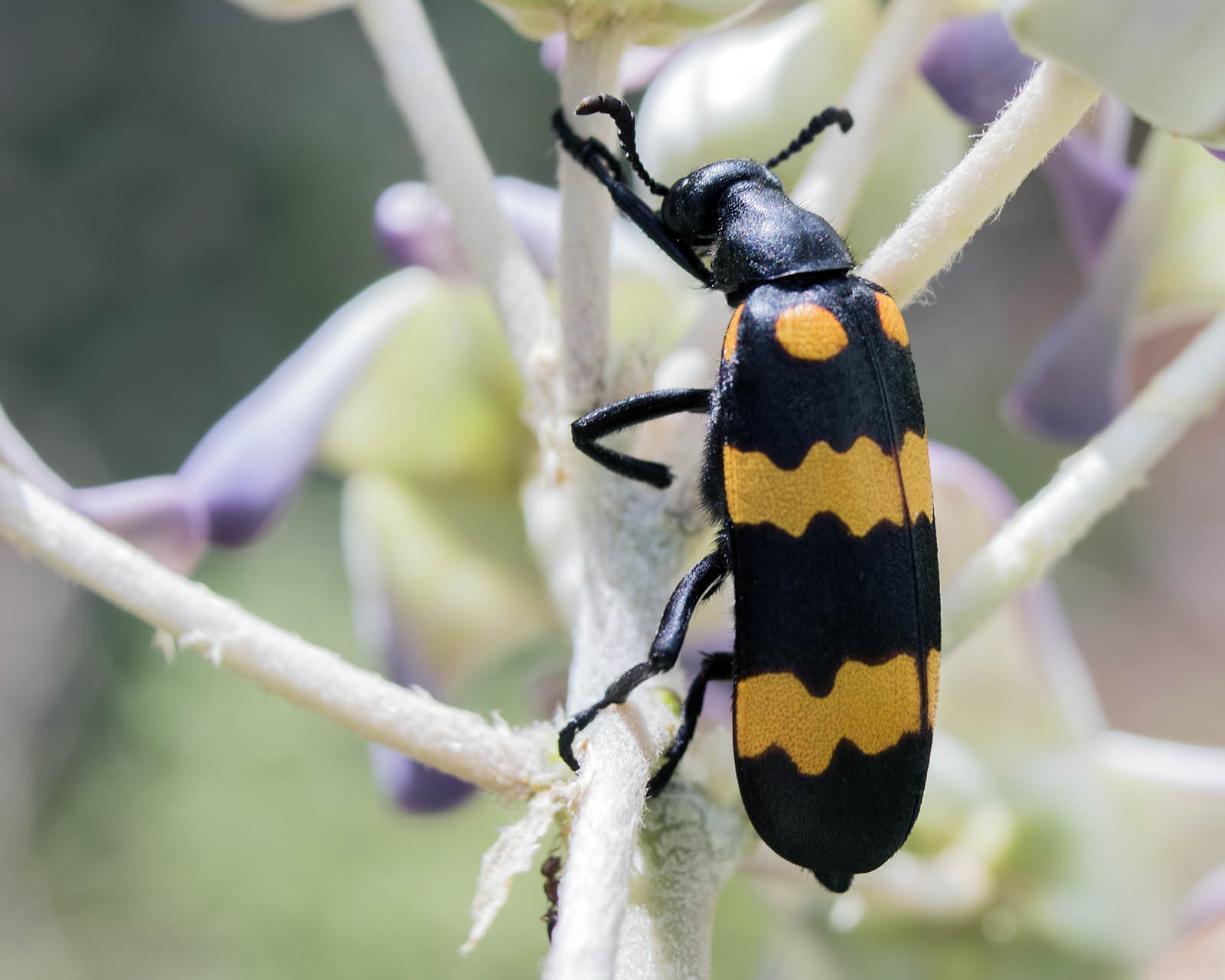 Hycleus sp., Family: Meloidae Blister beetles are beetles of the family Meloidae, so called for their defensive secretion of a blistering agent, cantharidin. About 7,500 species are known worldwide. Many are conspicuous and some are aposematically colored, announcing their toxicity to would-be predators. Cantharidin is a poisonous chemical that causes blistering of the skin. It is used medically to remove warts and is collected for this purpose from species of the genera Mylabris.